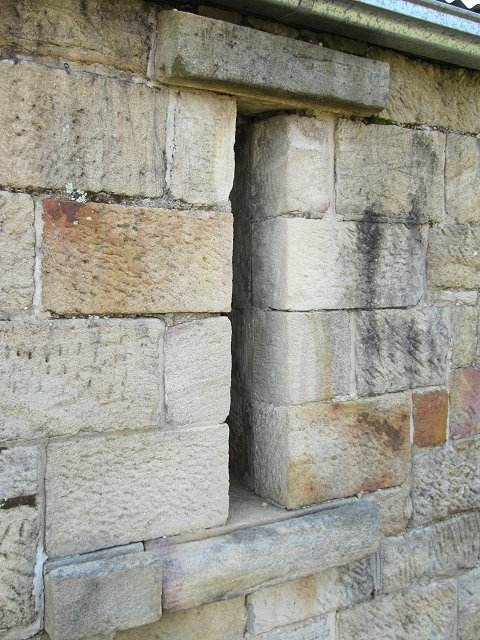 Beulah, Gilead